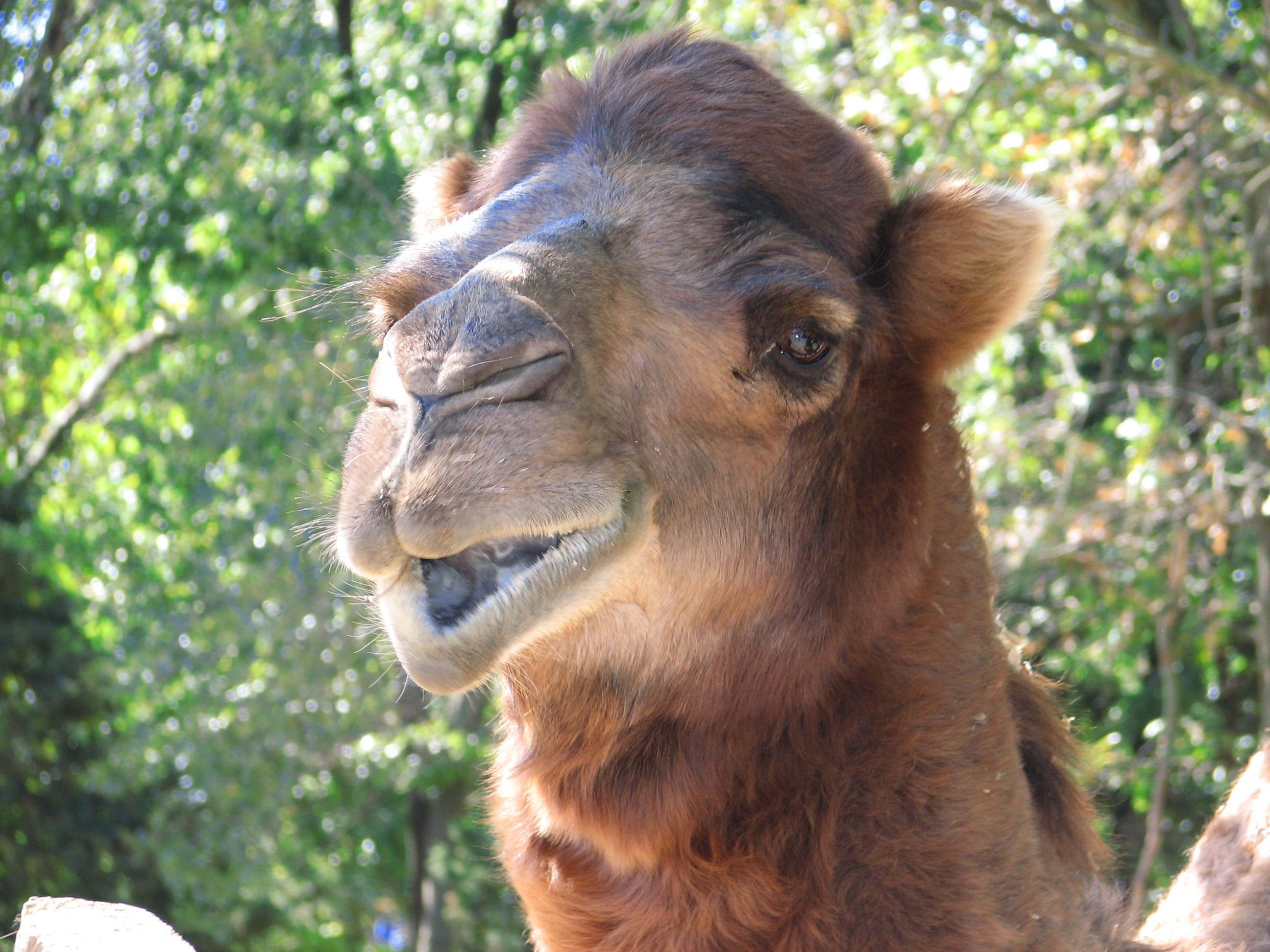 Dromedary Camel (Camelus dromedarius) at Louisville Zoo Author: Trisha Shears I overwrite one of my other camel images with this better, larger image.